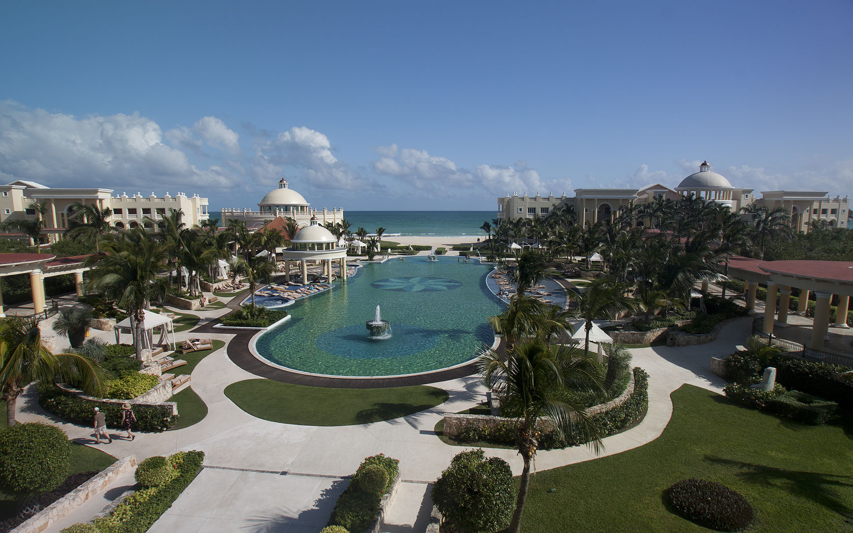 Iberostar Grand Hotel Paraiso from Resort, Quinta Roo, Mexico